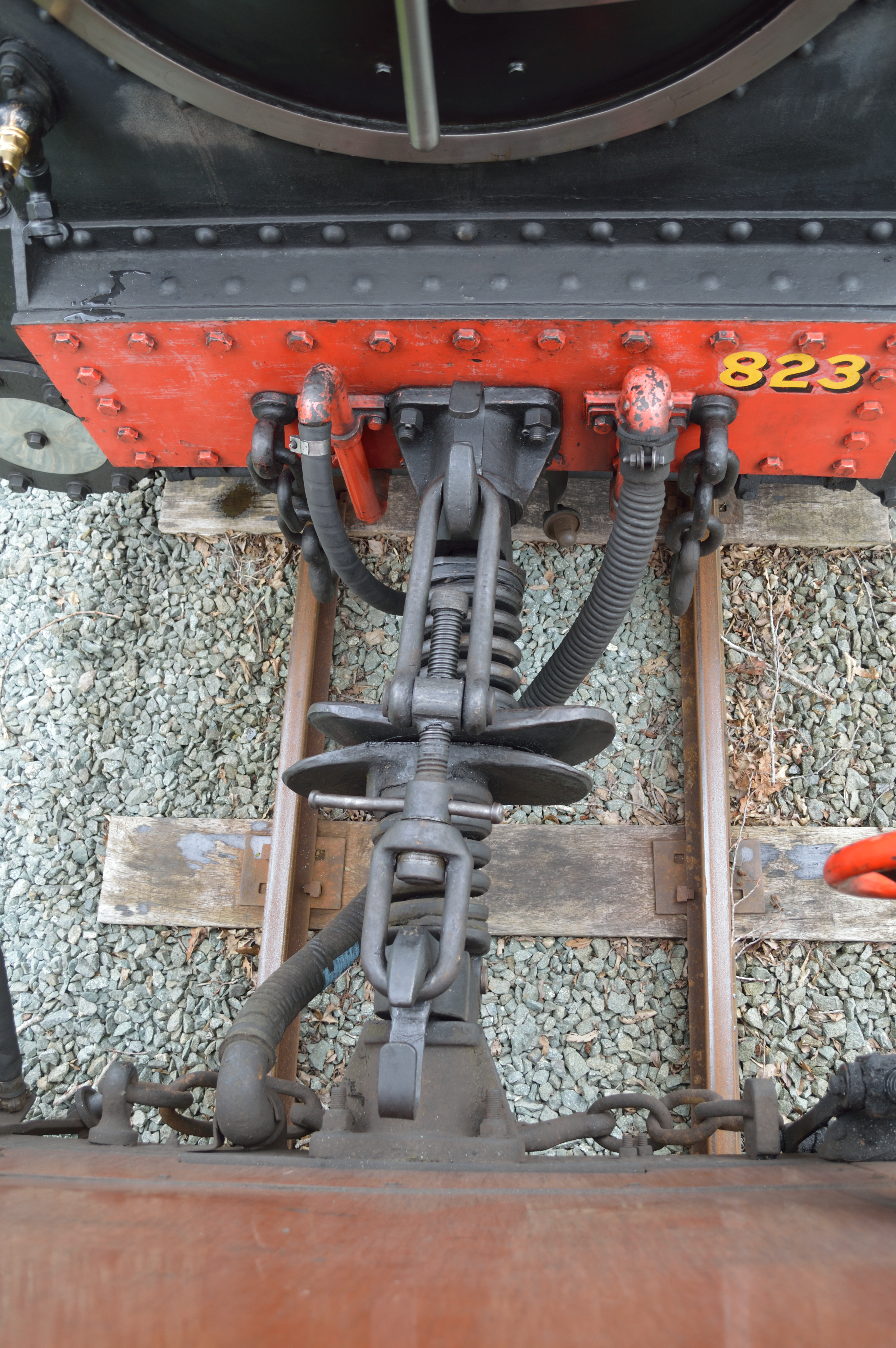 Welshpool and Llanfair Light Railway No. 2, Countess (GWR 823), showing the Grondana coupling to its train. The coupling has a centre buffer with an integrated draw hook, using a screw coupling to link vehicles together.